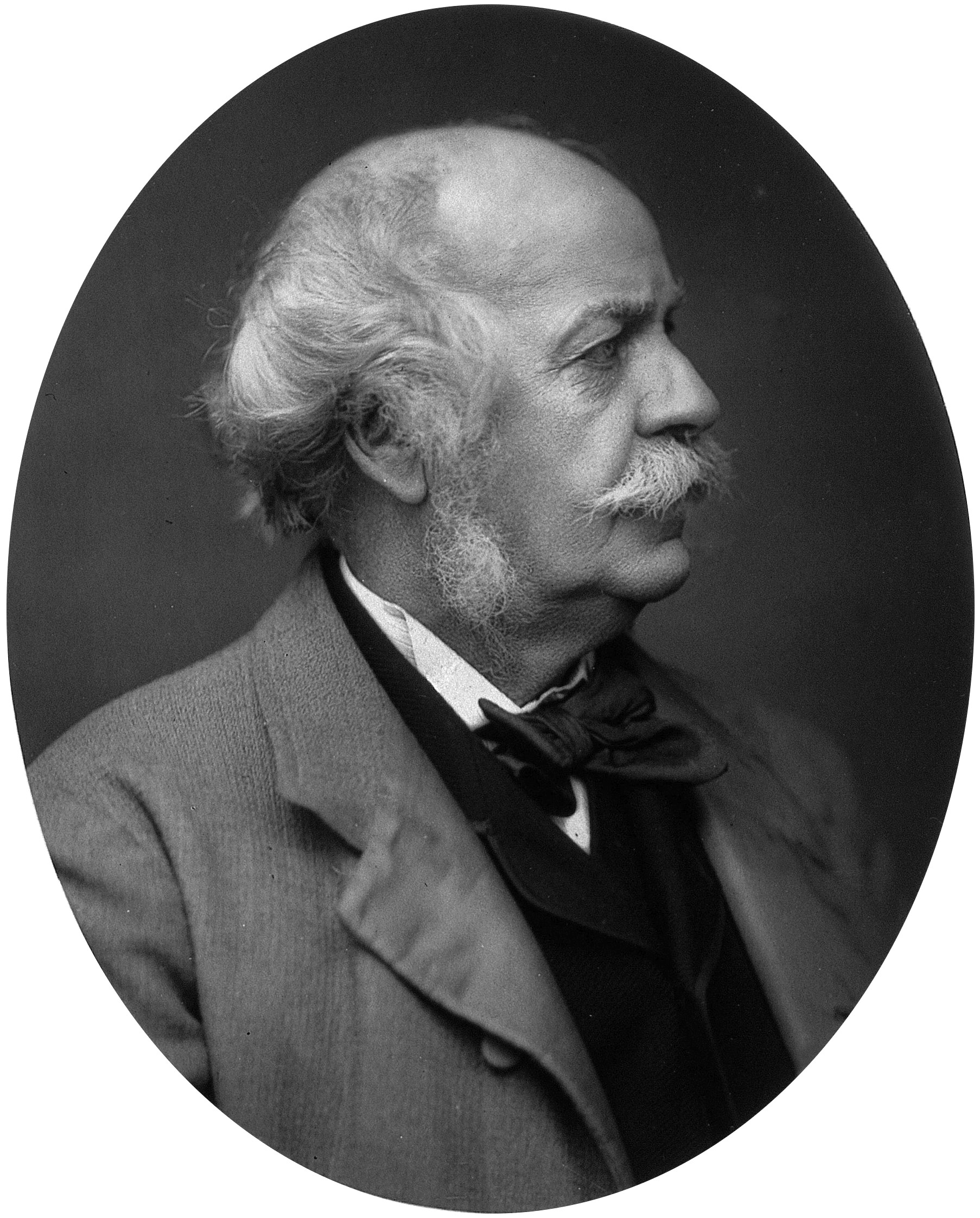 Henry Rawlinson (Sir), 1st Baronet